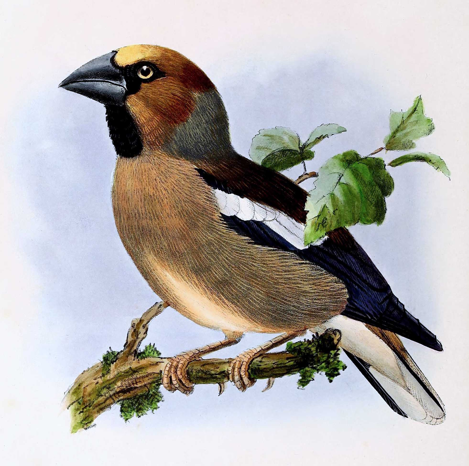 « Coccothraustes vulgaris » = Coccothraustes coccothraustes (Hawfinch)